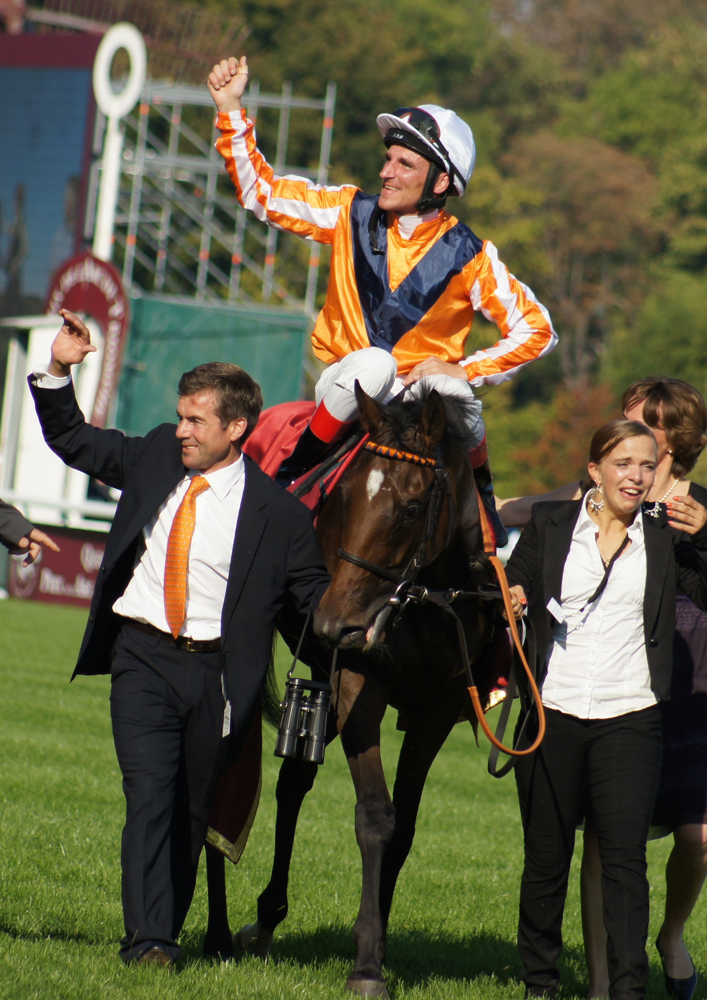 The thrilled connections greet Danedream as she comes back after winning the Prix De L'arc Triomphe